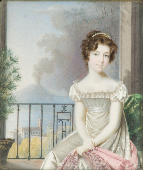 Mary Anne Acton, Lady Acton (1784-1873) in lace bordered with white satin dress, pink cashmere stole resting on her knees. Pearl tiara seated on a balcony overlooking the bay of Naples with Vesuvius in distance.